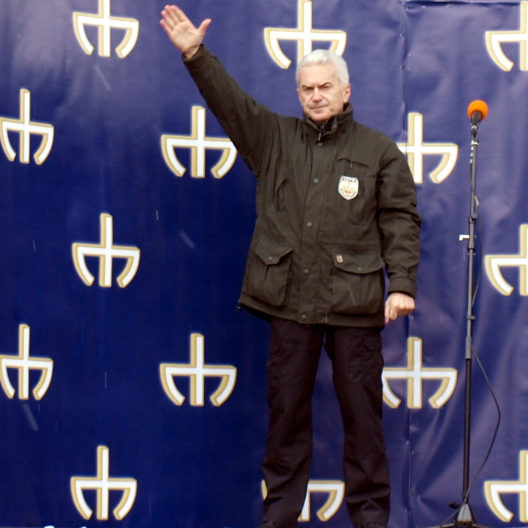 The leader of the Bulgarian nationalist party ATAKA